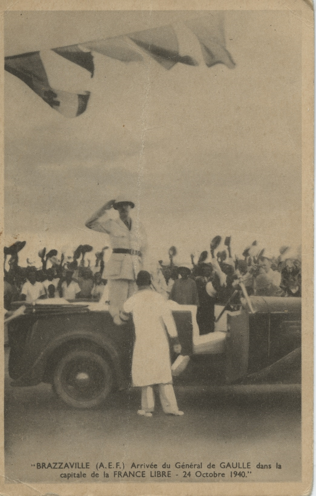 Charles de Gaulle arriving at Brazzaville, 1940, 24th October